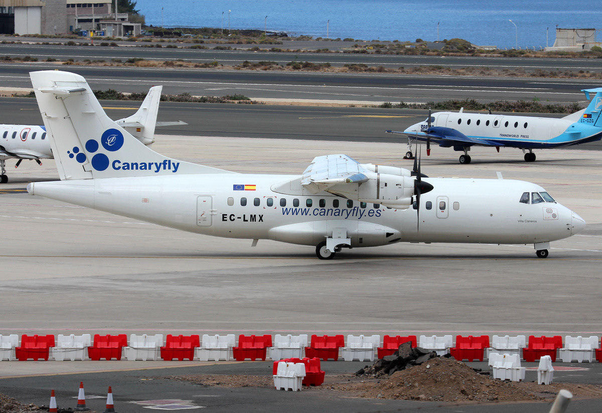 CanaryFly ATR 42-320 at Gran Canaria Airport